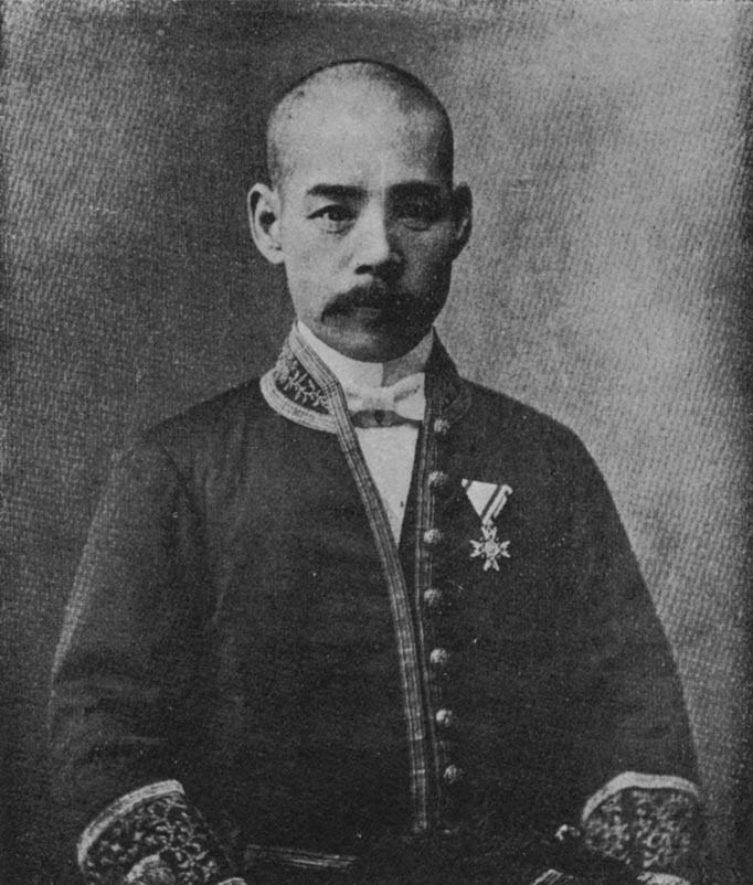 Entarō Noguchi while he was serving as the Director of the Himeji Normal School.